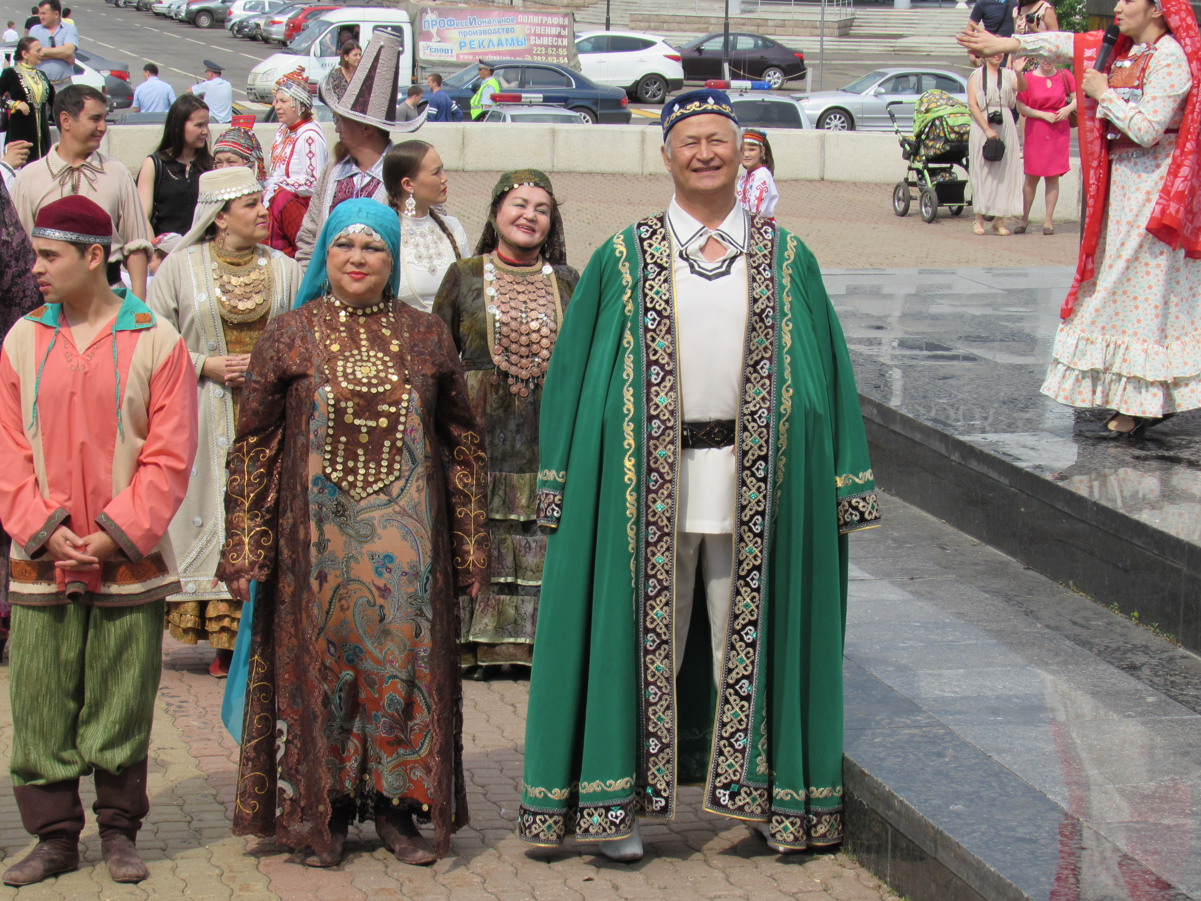 Holiday Bashkir national costume